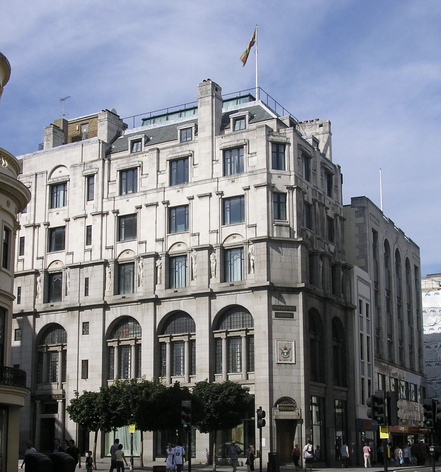 Zimbabwe House, Embassy of the Republic of Zimbabwe in London, United Kingdom. Located in the Strand (across from the Thistle Charing Cross)